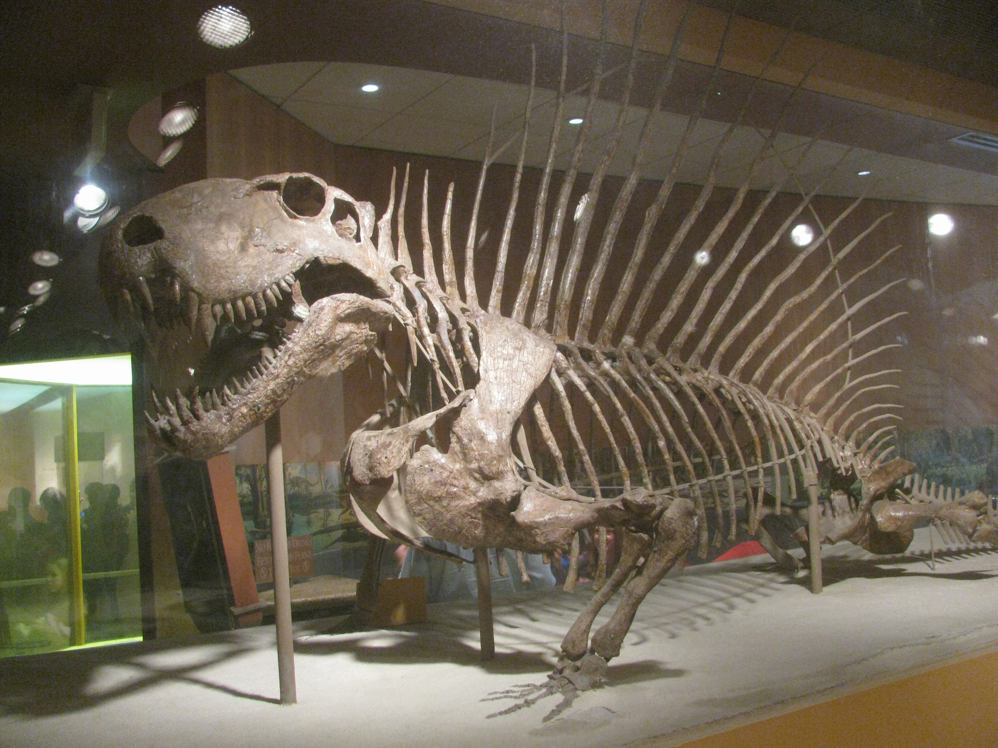 Another synapsid, more closely related to the mammals than to the dinosaurs.